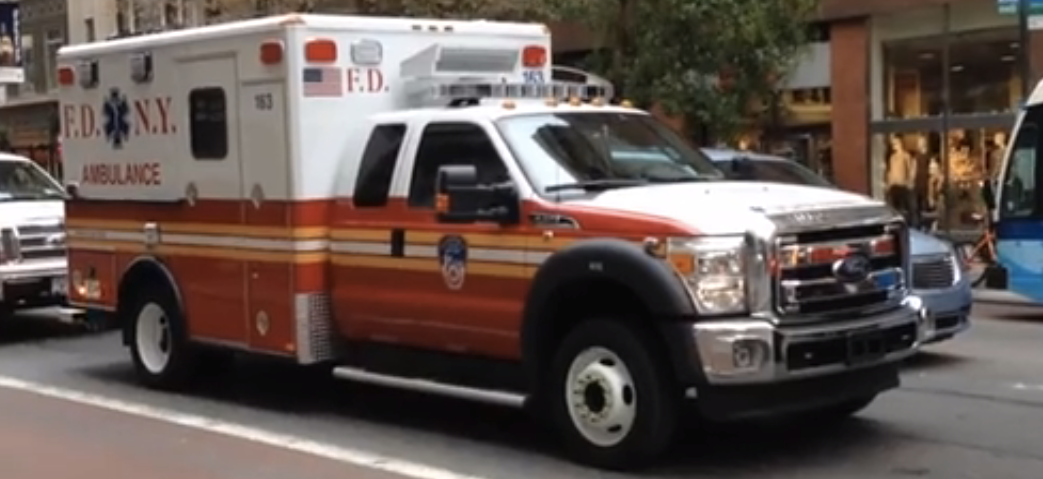 New FDNY Ford F-450 Super Duty Ambulance